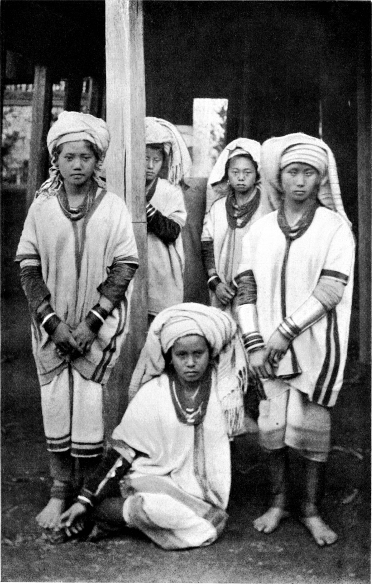 Zayein Karen women. (Lahta or Kayan Lahta)